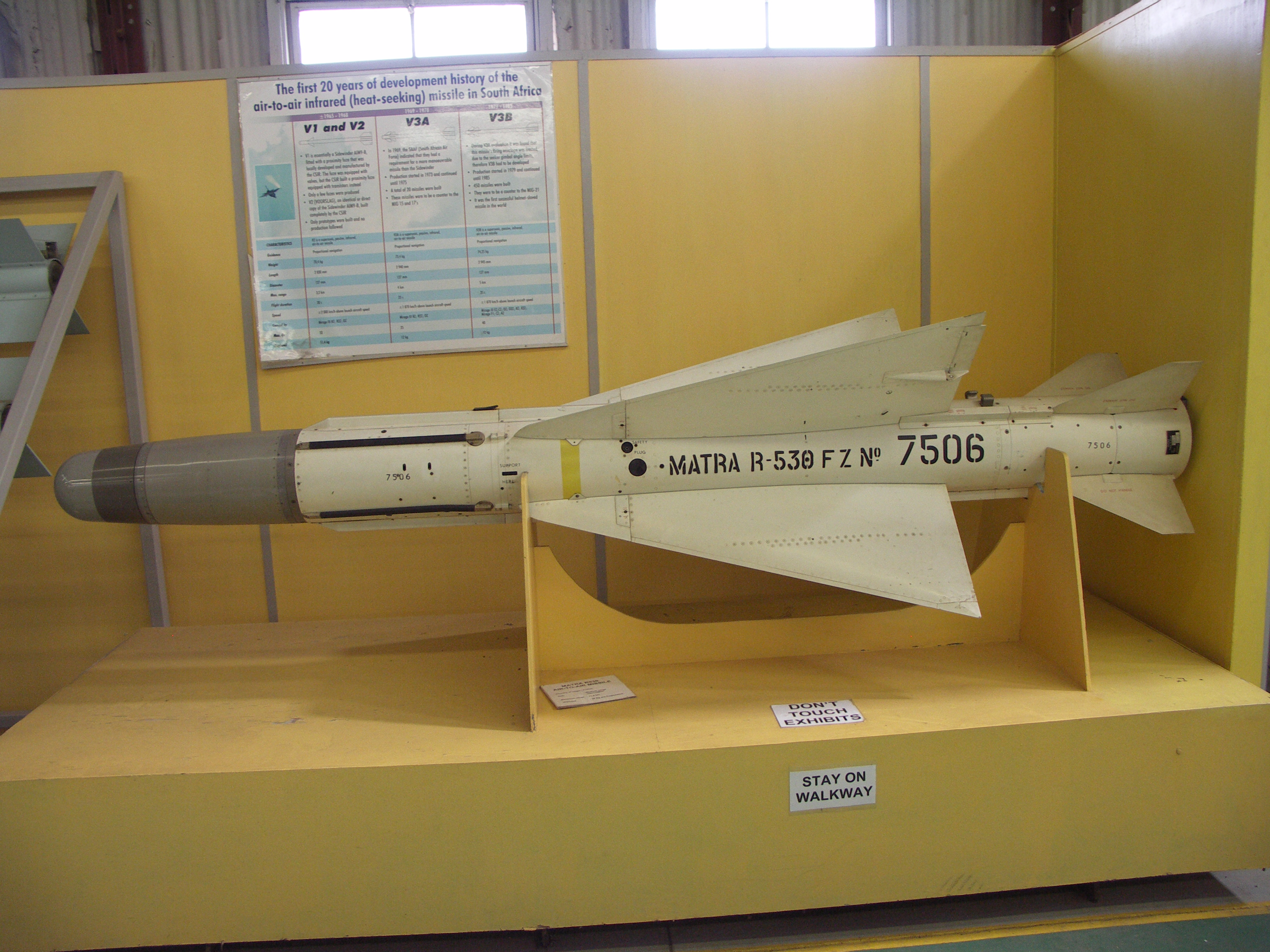 Matra R530 air-to-air missile (Writeup in background is unrelated, it concerns AIM-9 sidewinder derivatives of the SAAF exhibited just to the left of this missile) South African Air Force Museum, Swartkop